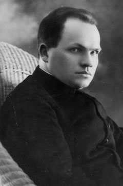 Blessed Anthony Leszczewicz